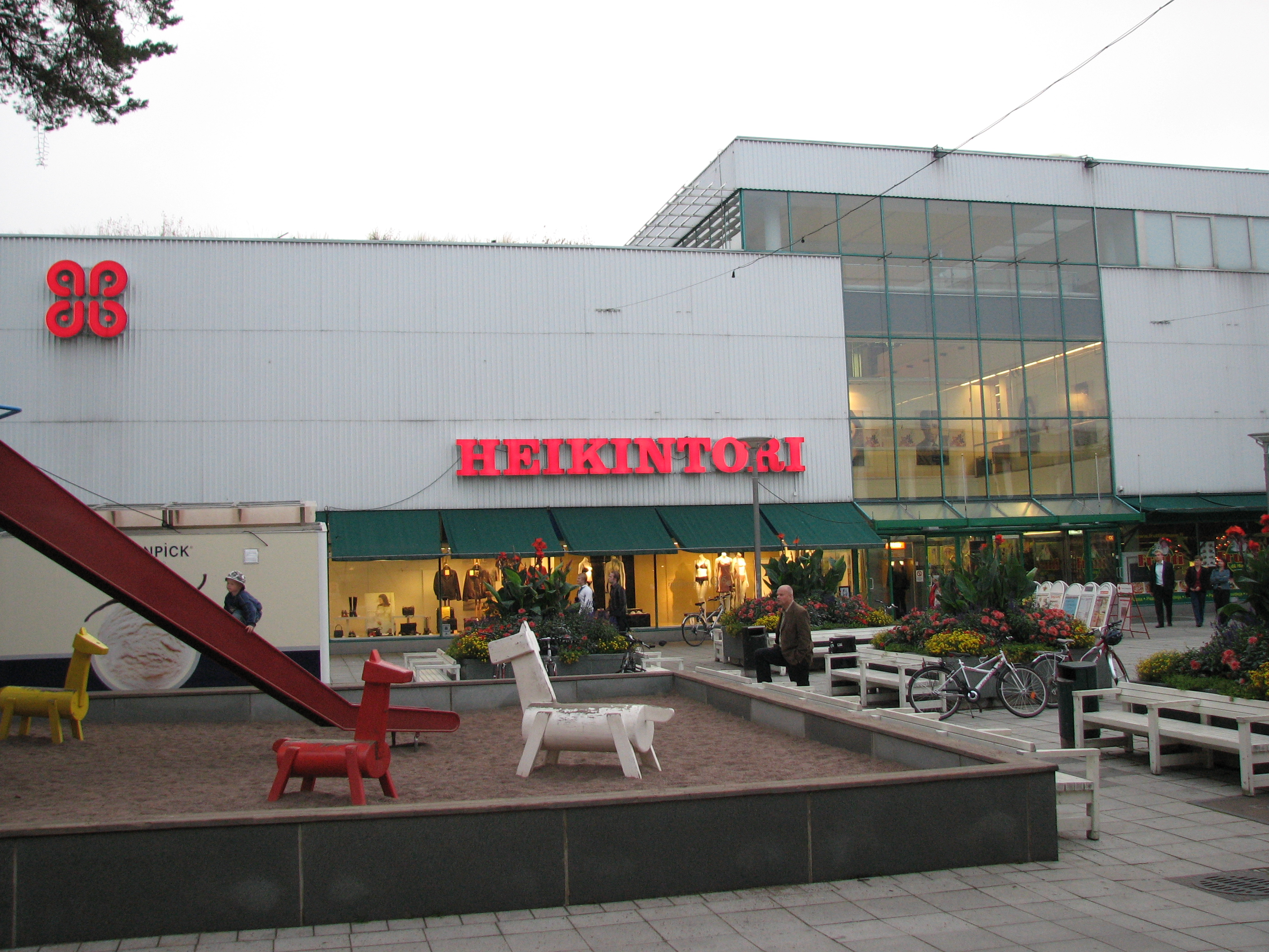 The Heikintori building in Tapiola, Espoo, with a children's playpark in the foreground.